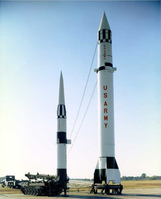 MGM-31 Pershing (Left) and PGM-11 Redstone (Right)